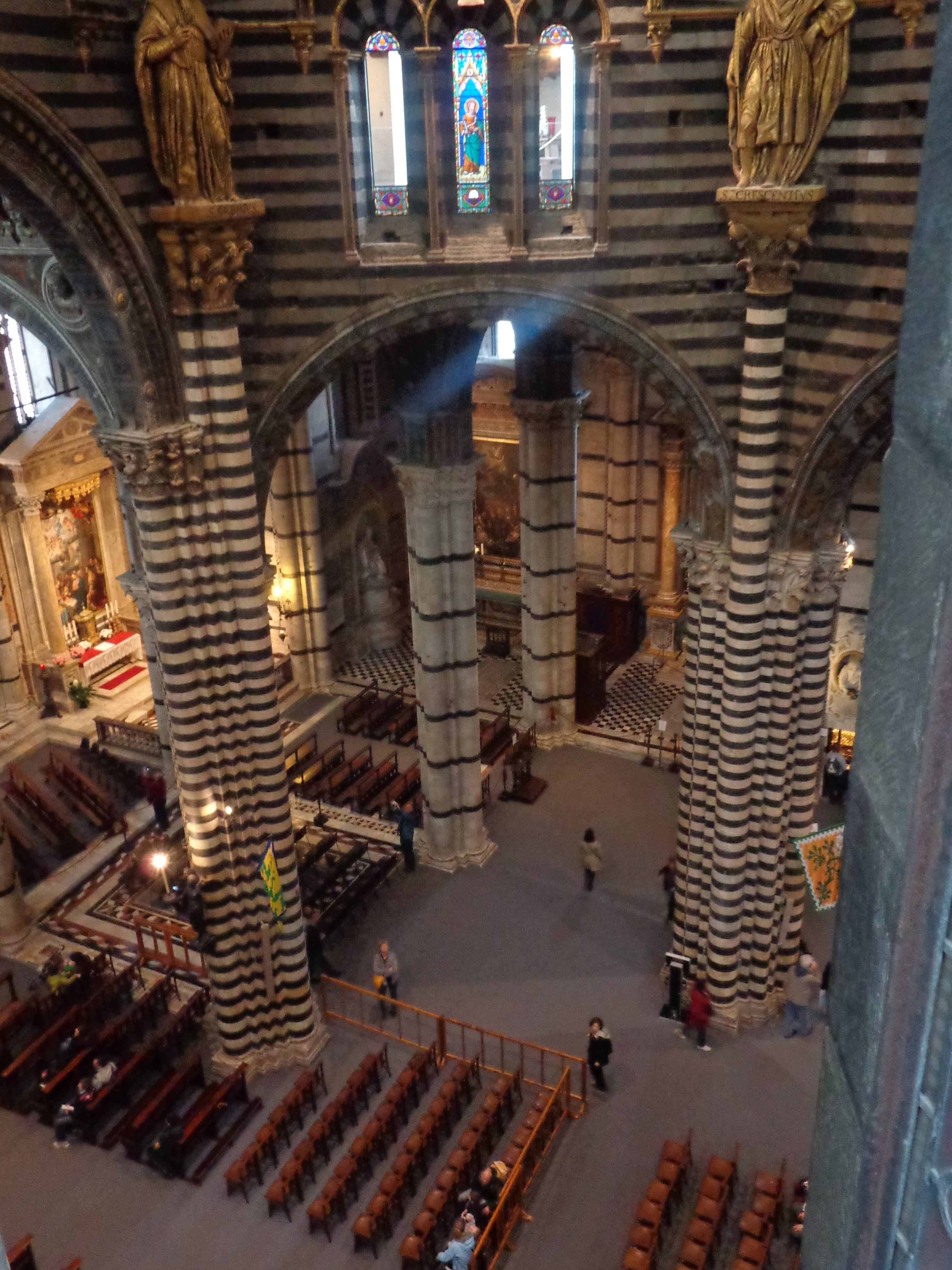 Interior of the cathedral of Siena